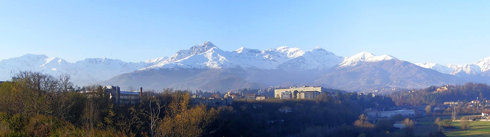 Mountain range Tre Vescovi-Mars from Biella's skeet shooting field (Italy)